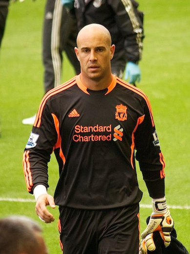 Pepe Reina of Liverpool